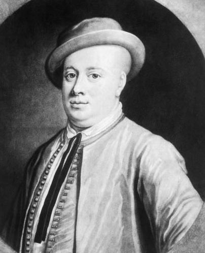 Thomas Hamilton, 6th Earl of Haddington (c1680-1735)